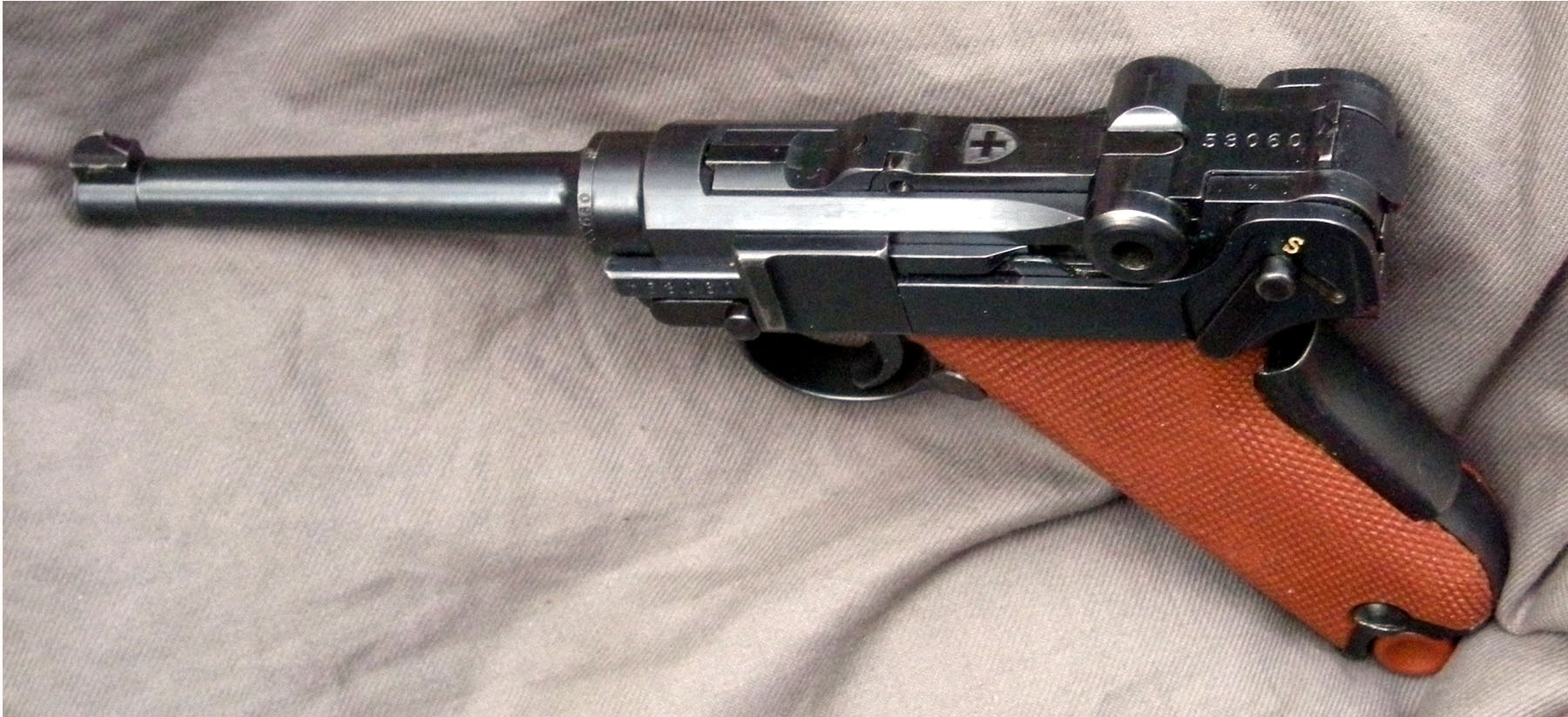 Parabellum 29, built 1935 [1]